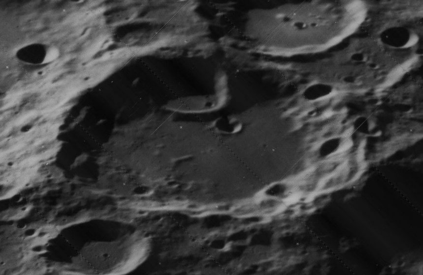 Oblique view of Wegener crater, on the far side of the moon, facing west.